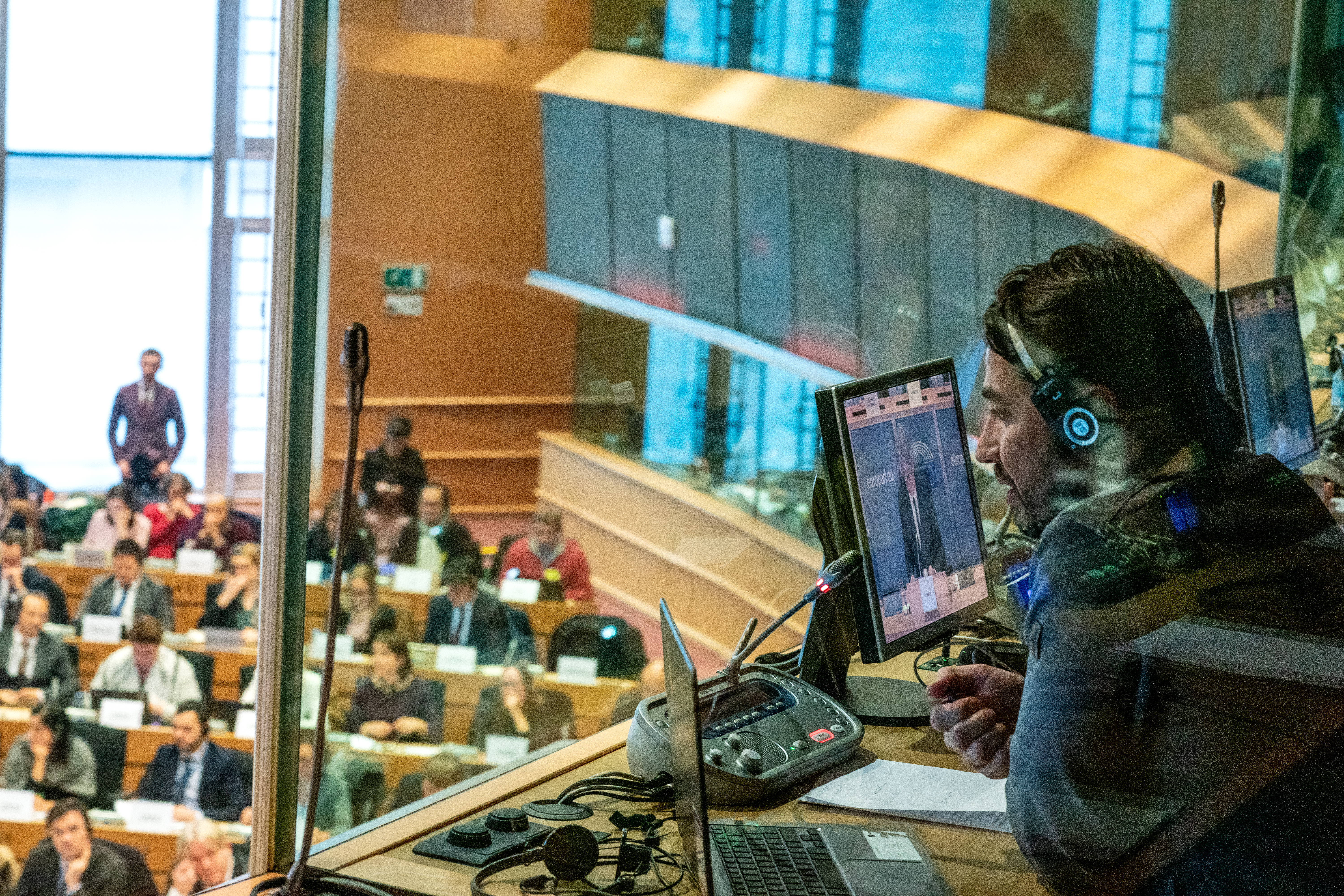 The Internal Market and the Industry committees questioned Thierry Breton, candidate for the Internal Market portfolio. The presidents and political groups’ coordinators from both committees will meet at 17.00 to assess the performance of the Commissioner-designate. Digital, environmental and social challenges In his introductory speech, Mr Breton spoke of the digital, environmental and social challenges the EU is facing and how he plans to address them during his mandate. The digital transformation and climate change will be high on his agenda, in line with President-elect Ursula von der Leyen’s priorities. Mr Breton said that 5G, blockchain, Artificial Intelligence, cybersecurity, cloud and quantum technologies would enable the EU to be a “key industrial player”. He defended “ambitious industrial policies”, which should also be socially responsible, in order “not to leave anyone behind”. Read more: This photo is free to use under Creative Commons license CC-BY-4.0 and must be credited: "CC-BY-4.0: © European Union 2019 – Source: EP". No model release form if applicable. For bigger HR files please contact: webcom-flickr(AT)